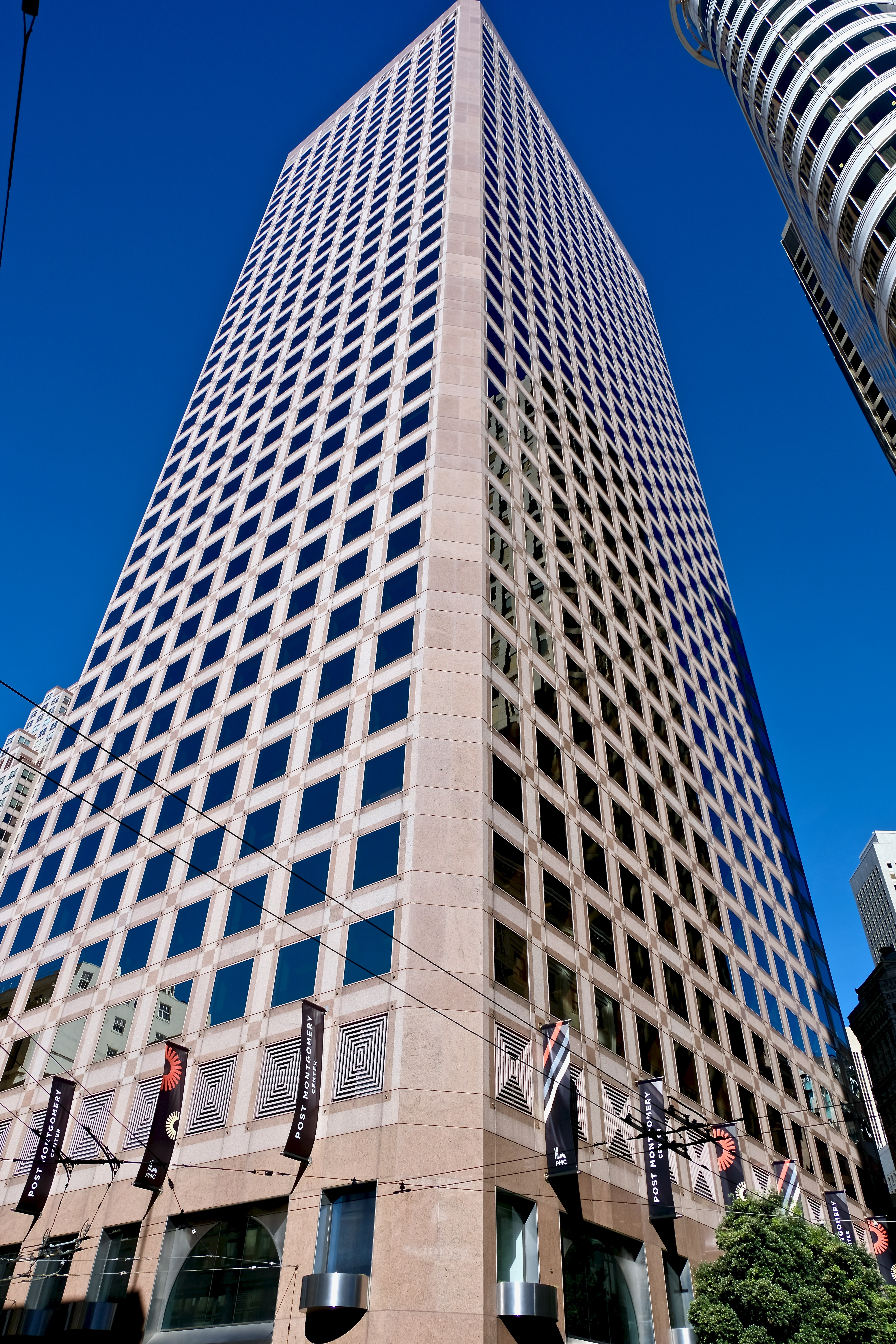 One Montgomery Tower from corner of Kearny Street and Post Street.